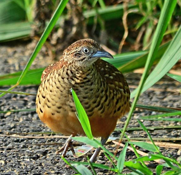 Barred Buttonquail Turnix suscitator, Dadri, Uttar Pradesh, India.